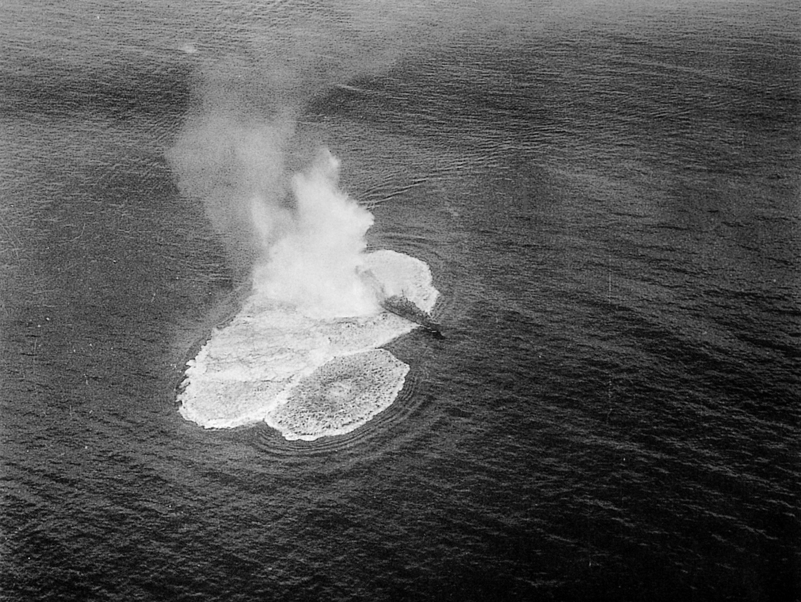 A Japanese destroyer under attak off Fukushima, Hokkaido (Japan), on 14 July 1945. The destroyer Tachibana was sunk by U.S. Navy carrier aircraft off Hakodate (41-48N, 141-41E) on that day. The Kamikaze-class destroyer Yanagi was heavily damaged in the same area.